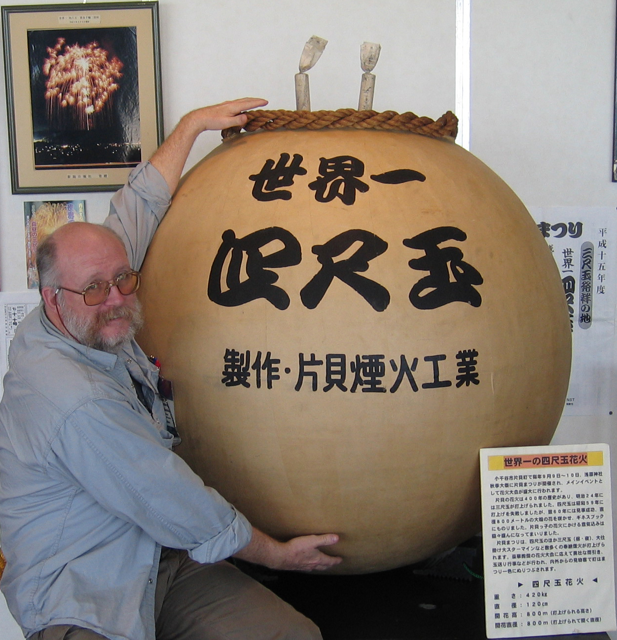 48 inch shell Shiga, Japan 20050510 Photo: Anders Hållinder This picture is free to use / Anders Hållinder